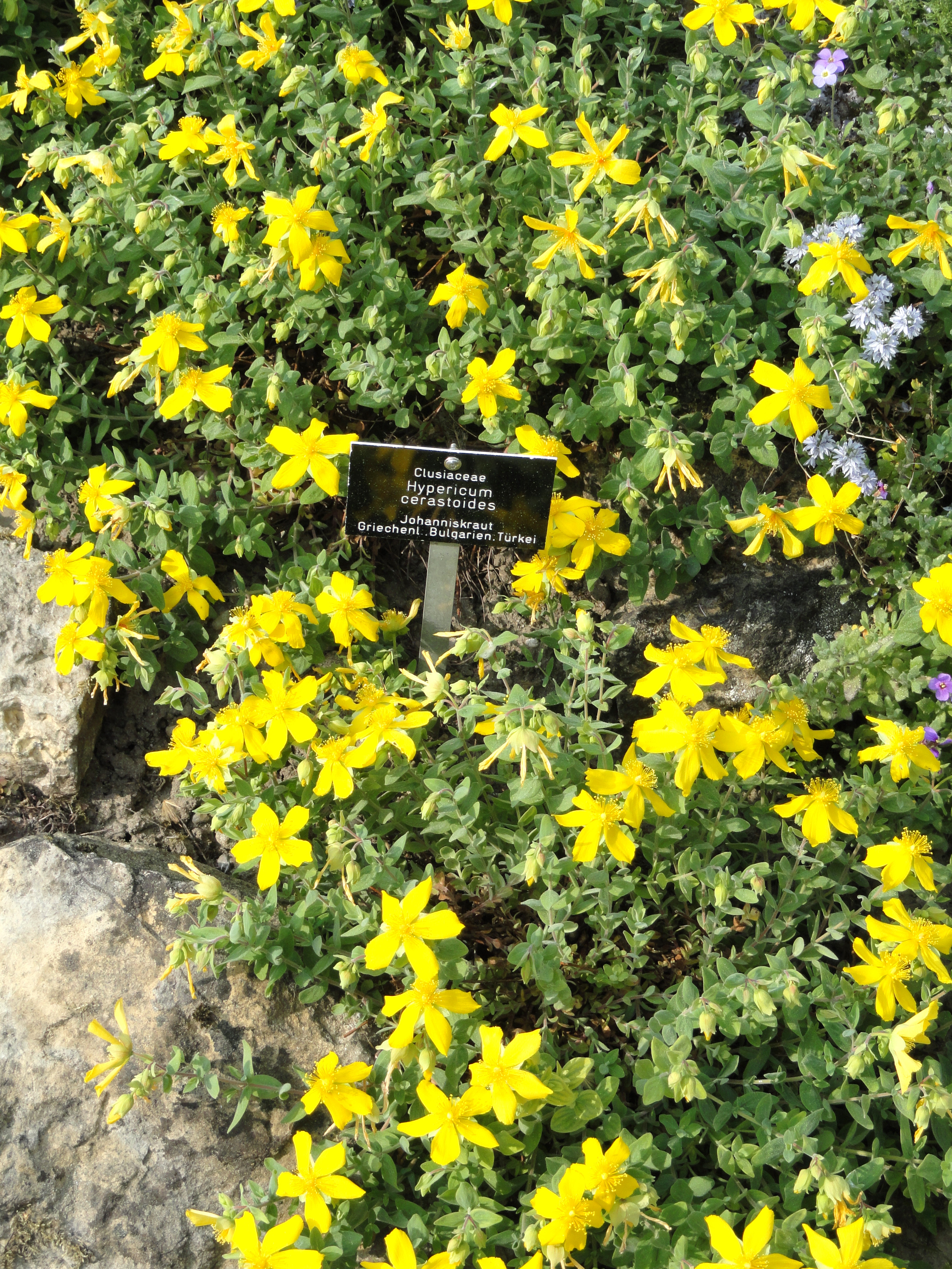 Hypericum cerastoides specimen in the Botanischer Garten Freiburg, Freiburg im Breisgau, Baden-Württemberg, Germany.